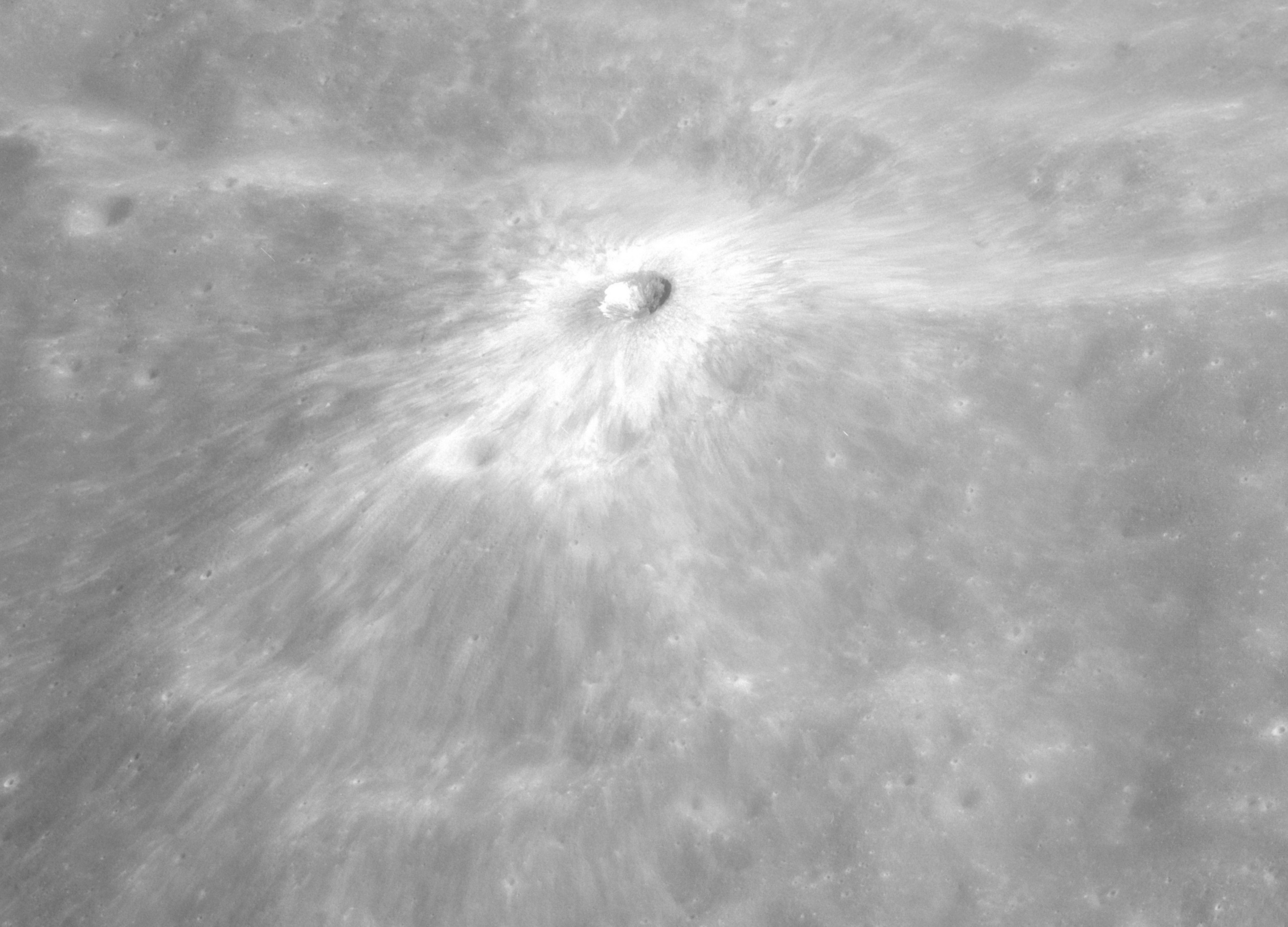 Oblique view of a small, young crater Chaplygin B with a bright ray system on the north edge of Chaplygin, on the far side of the moon. Facing south.